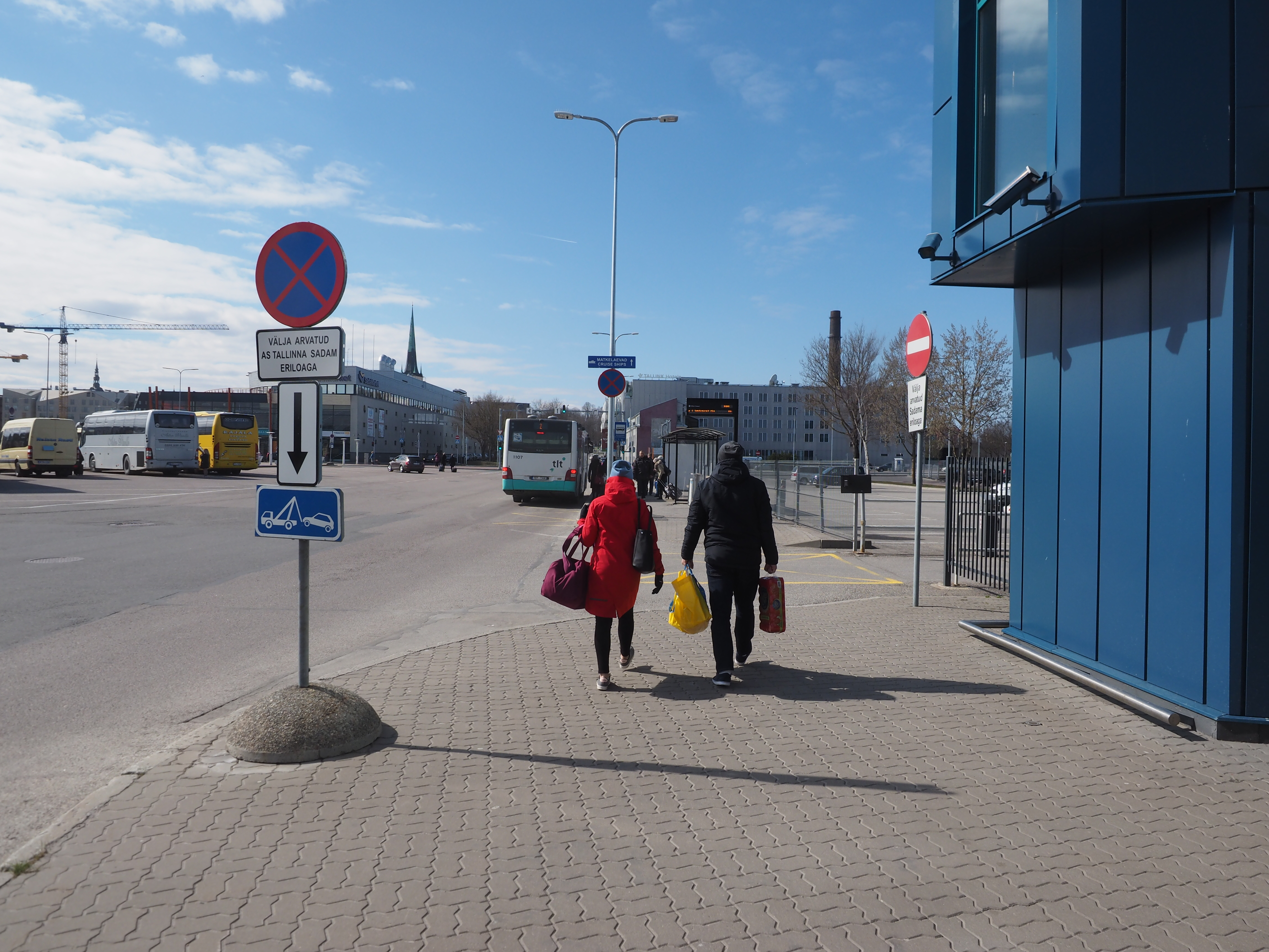 A view of Sadama street in northern Tallinn, Estonia, looking west toward the city centre. This is usually the first sight ferry passengers see of mainland Tallinn.